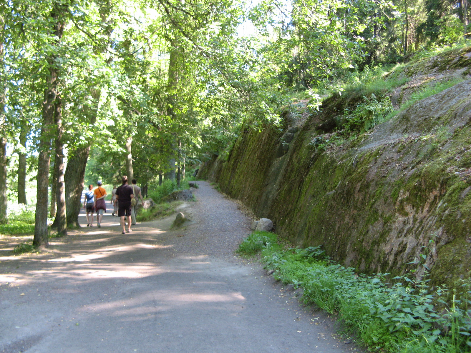 Rocky ledges in Monrepos park, Vyborg, Russia.